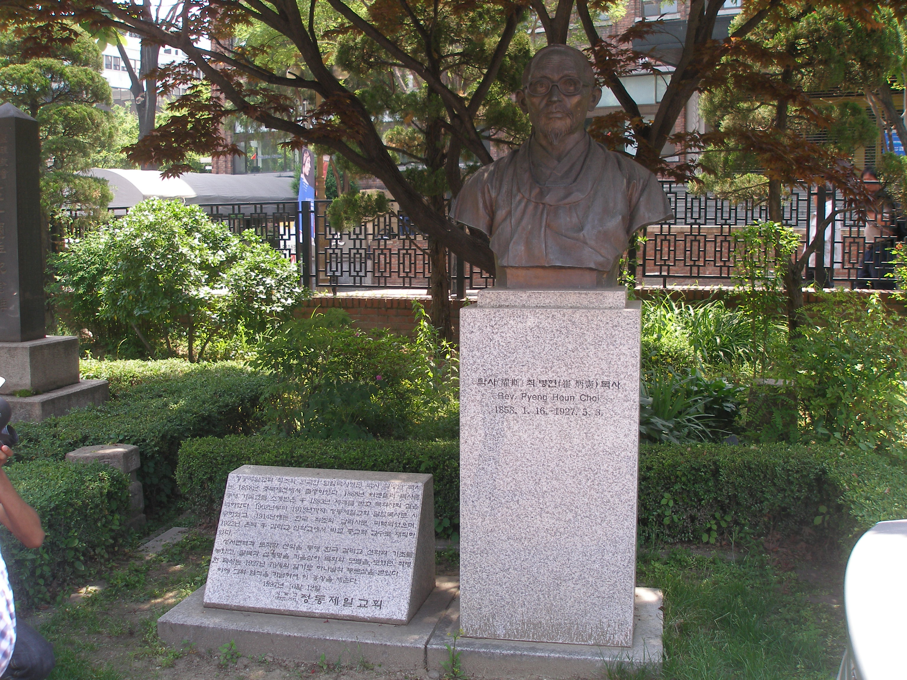 Outcommings of Wikipedia takes Jeongdong 위키백과:위키백과, 정동을 찍다에서 찍은 사진 Pastor CHOI Byeongheon statue in the garden of Jeong-dong church